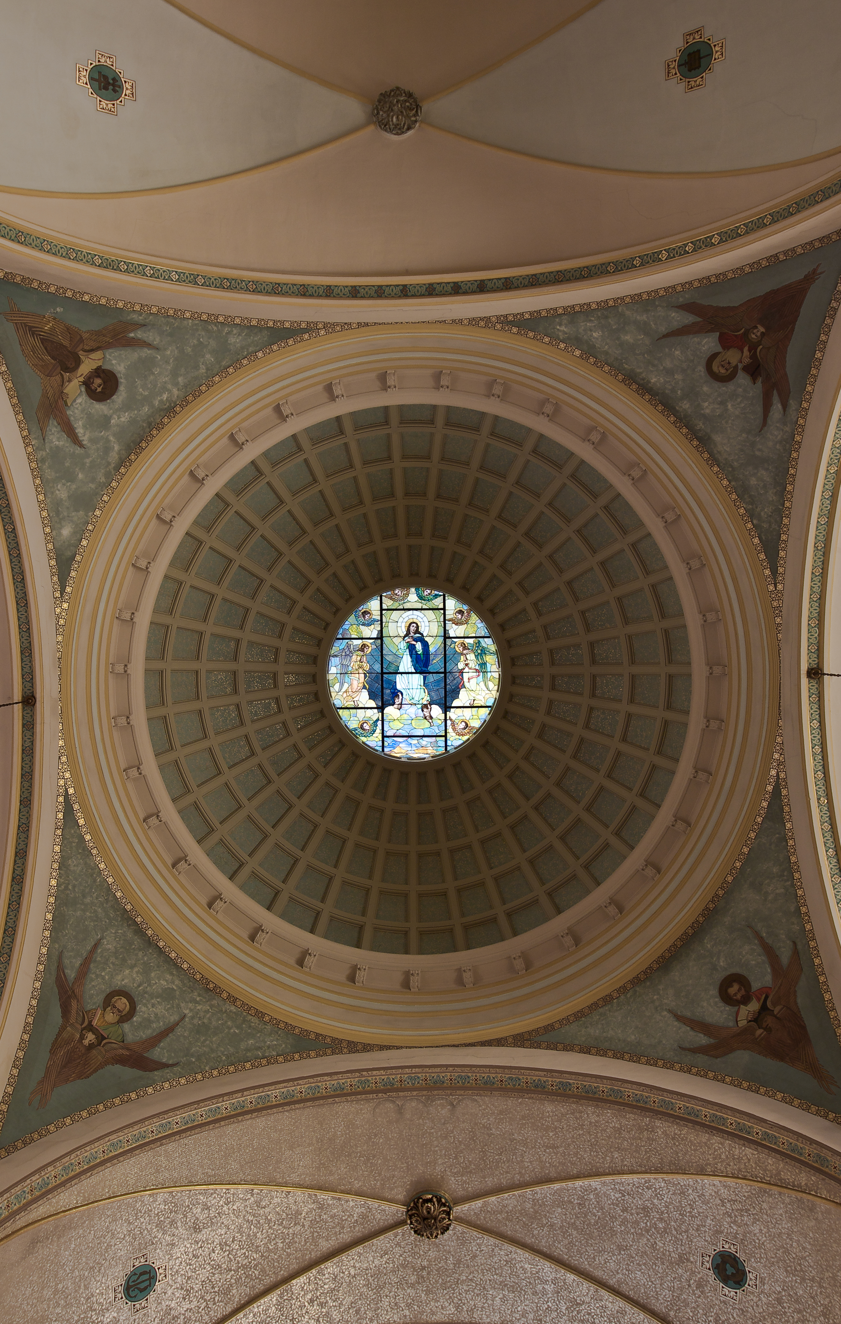 The "green dome" from the inside. Best viewed large.